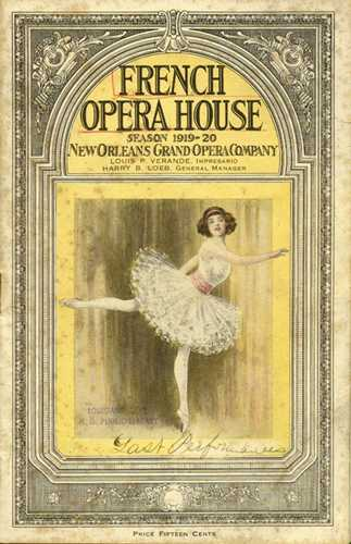 Cover of program for 1919-1920 season of the French Opera House, New Orleans. The theater burned before the end of the season.